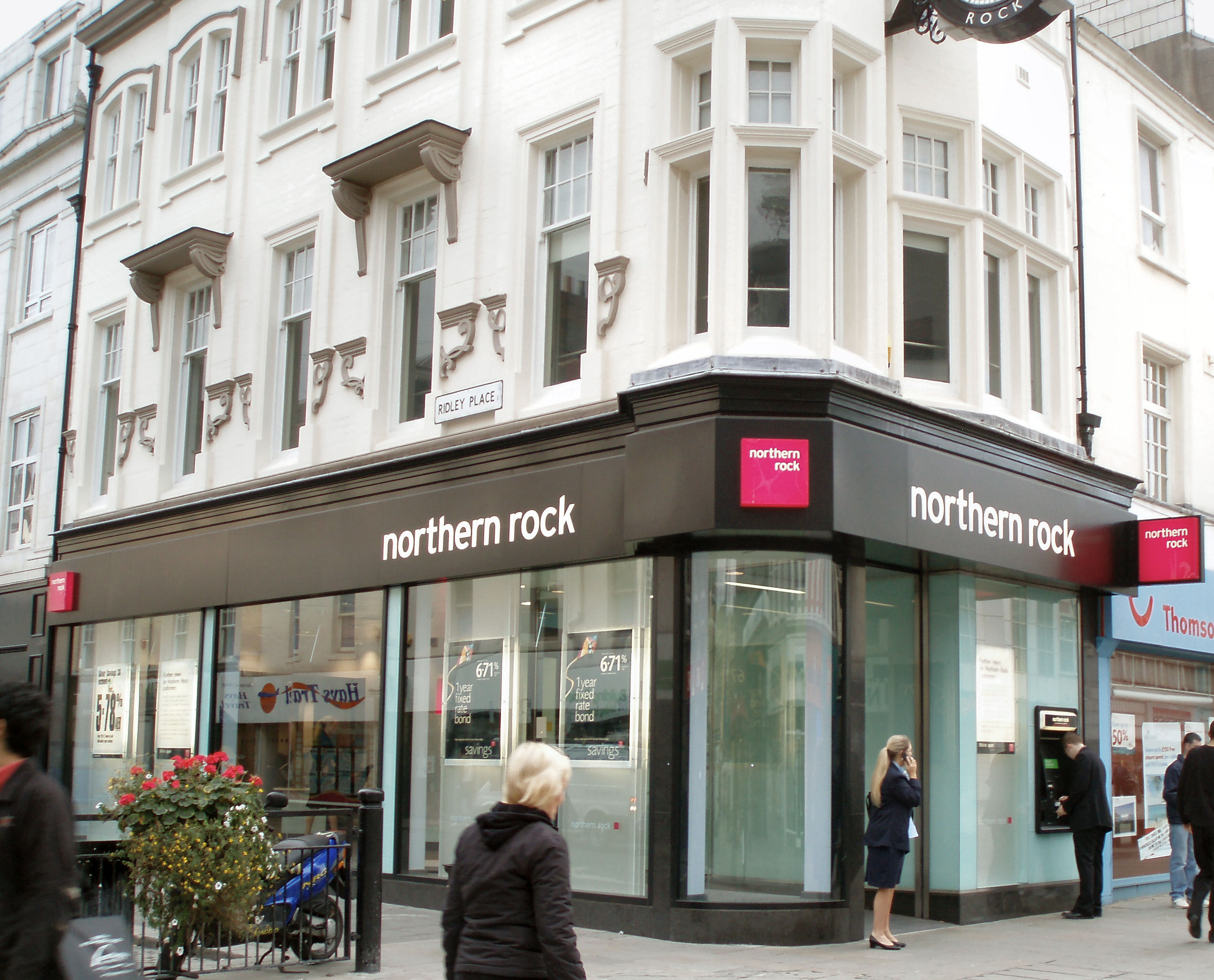 A branch of the Northern Rock Bank on Northumberland Street / Ridley Place, Newcastle upon Tyne, England in October 2007.